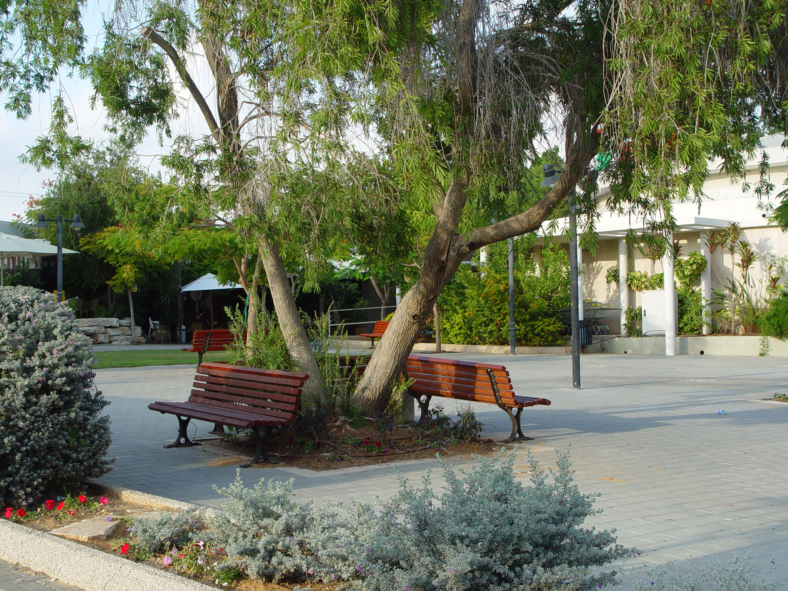 Zahala (Israel) commercial center